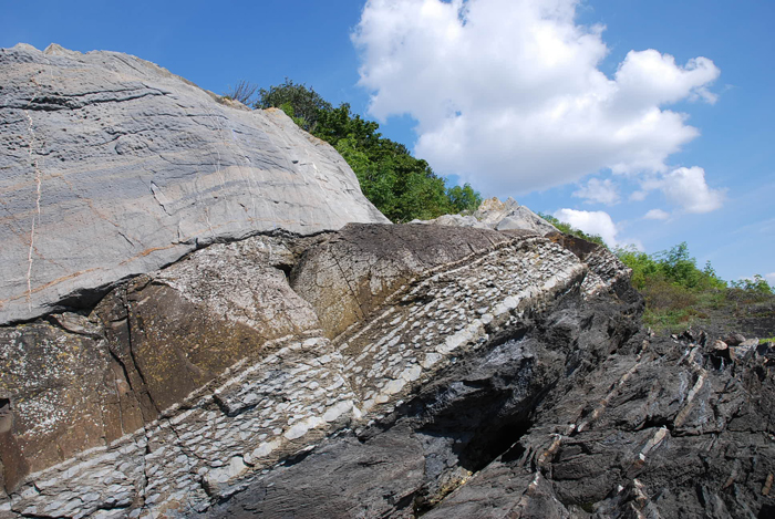 Photo of the Ordovician - Silurian boundary, an example of marine transgression as exposed on the Southern tip of the Hovedøya island, Norway. Due to the folding of the caledonian mountain range, the layers have been inverted, leaving late Ordovician brownish mudstone with limestones nodules deposited in shallow water on top of the deep-water dark Silurian shale.